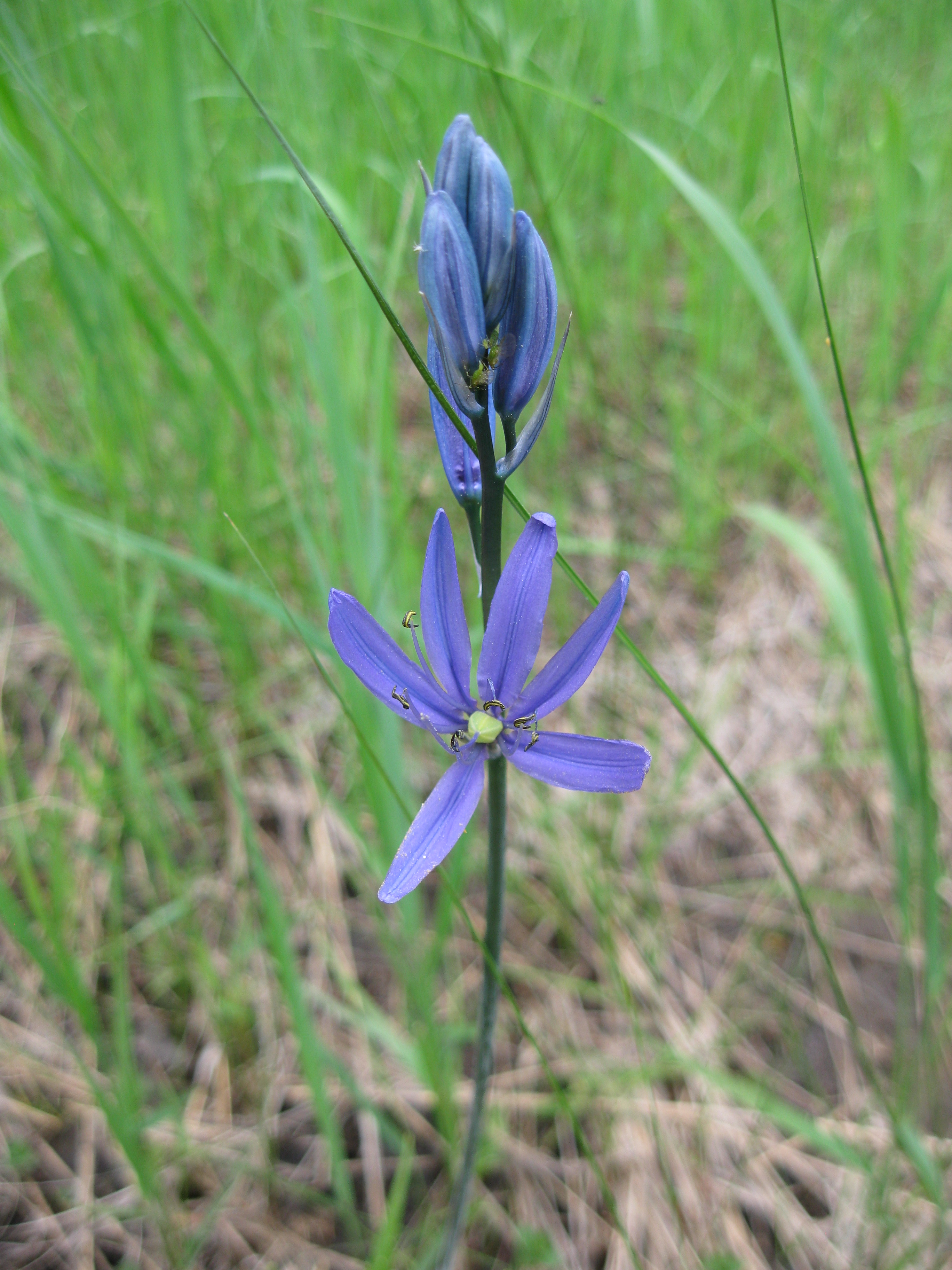 This is a common lily found in wet meadows and sometimes dry, rocky areas. This is a traditional food, not to be confused with death camas (Zigadenus sp). (cd)